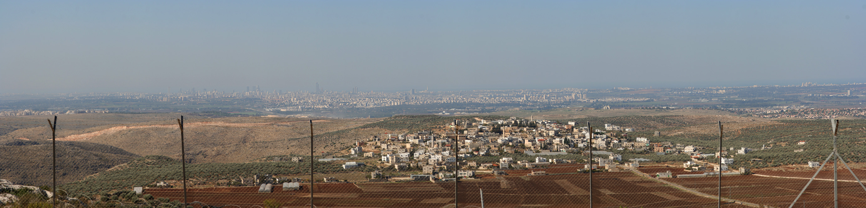 Tel Aviv and Gush Dan panoramic from Peduel. In the foreground the arabic village Deir Ballut, in the background the coast line of the Mediterranean Sea.